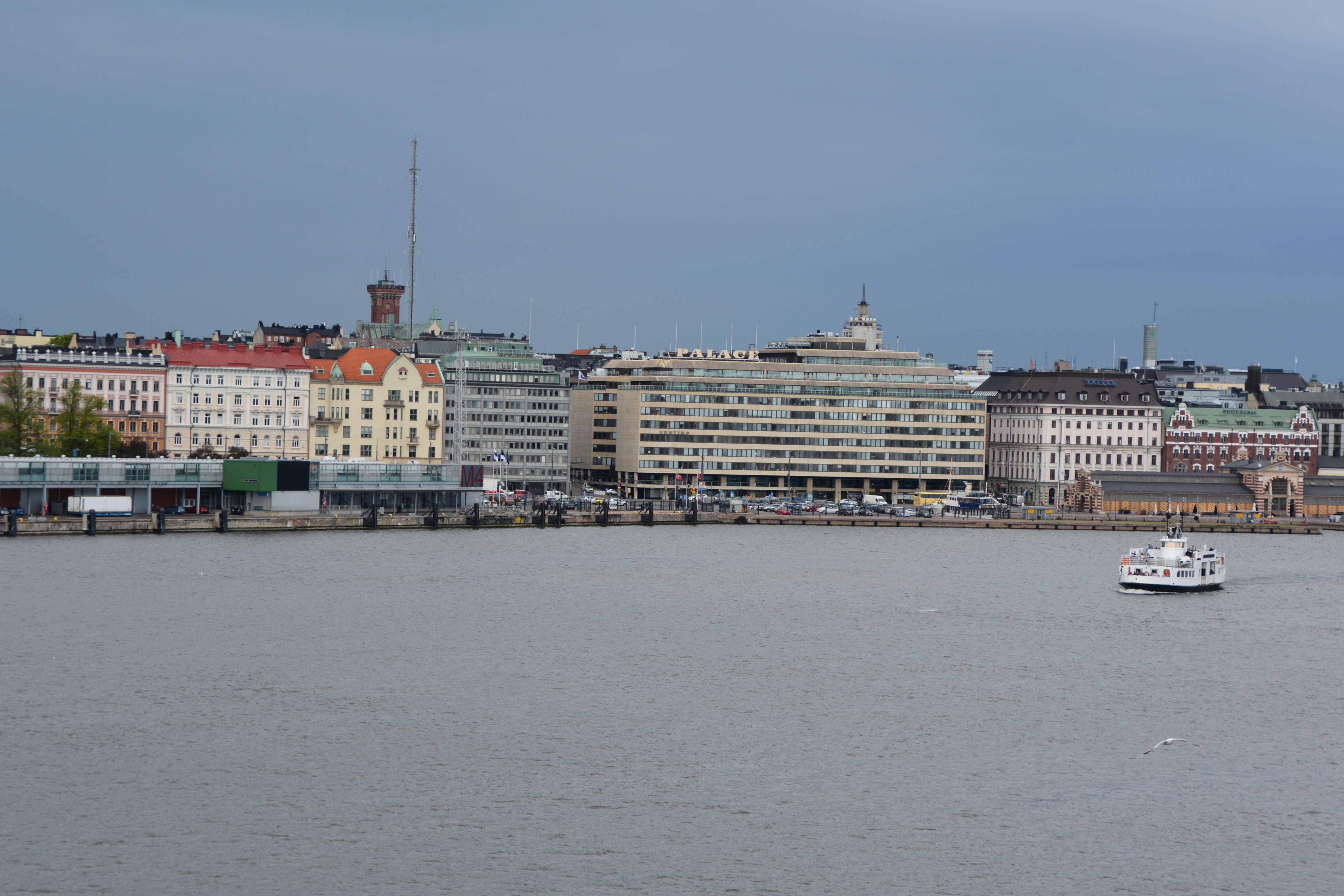 Discussed site of Guggenheim Helsinki museum, Helsinki harbour